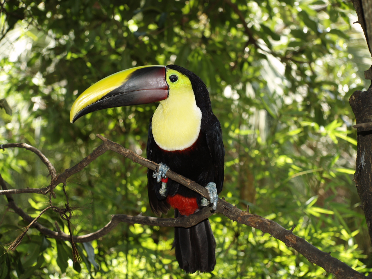 Chestnut-mandibled Toucan (also called Swainson’s Toucan) at the Jacksonville Zoo, USA.